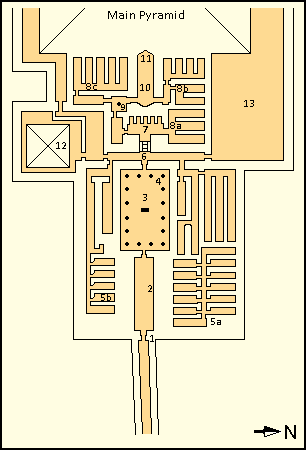 A depiction of the layout of Unas' mortuary temple. In order: (1) Pink granite doorway constructed by Teti I; (2) Long entrance hall with (5a and b) storage rooms to the north and south of the hall; (3) Courtyard with (4) eighteen granite palmiform columns; (6) Transverse corridor set on a north-south axis; (7) The chapel with five statue niches; (8a, b and c) storage rooms surrounding the inner temple; (9) The antichamber carrée with central column; (10) The offering hall with (11) a granite false door bearing protective inscription; (12) The cult pyramid; and (13) the courtyard that surrounds the pyramid. Based on Verner, Miroslav (2001) The Pyramids: The Mystery, Culture and Science of Egypt's Great Monuments, New York: Grove Press, pp. 332–339